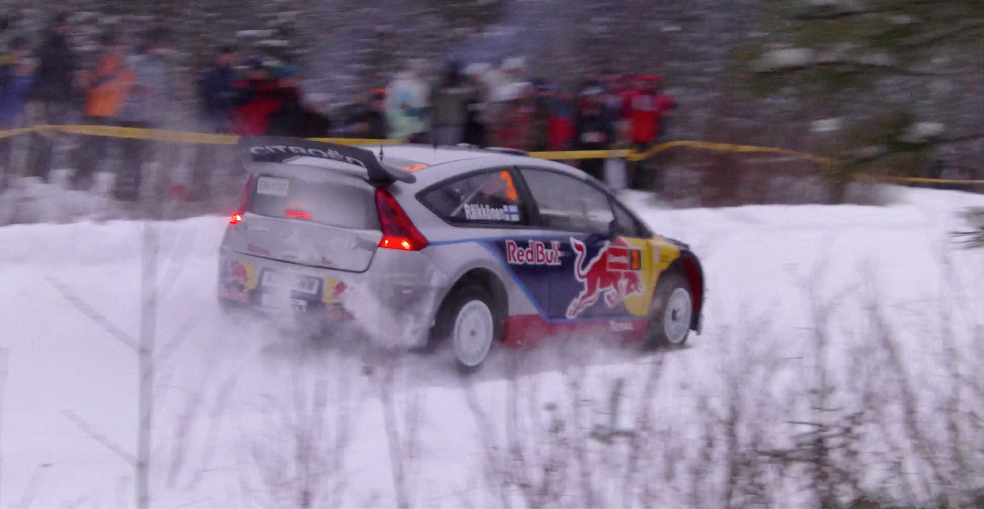 Kimi Räikkönen driving a Citroen C4 at Arctic Lapland Rally 2010, Rovaniemi Finland.